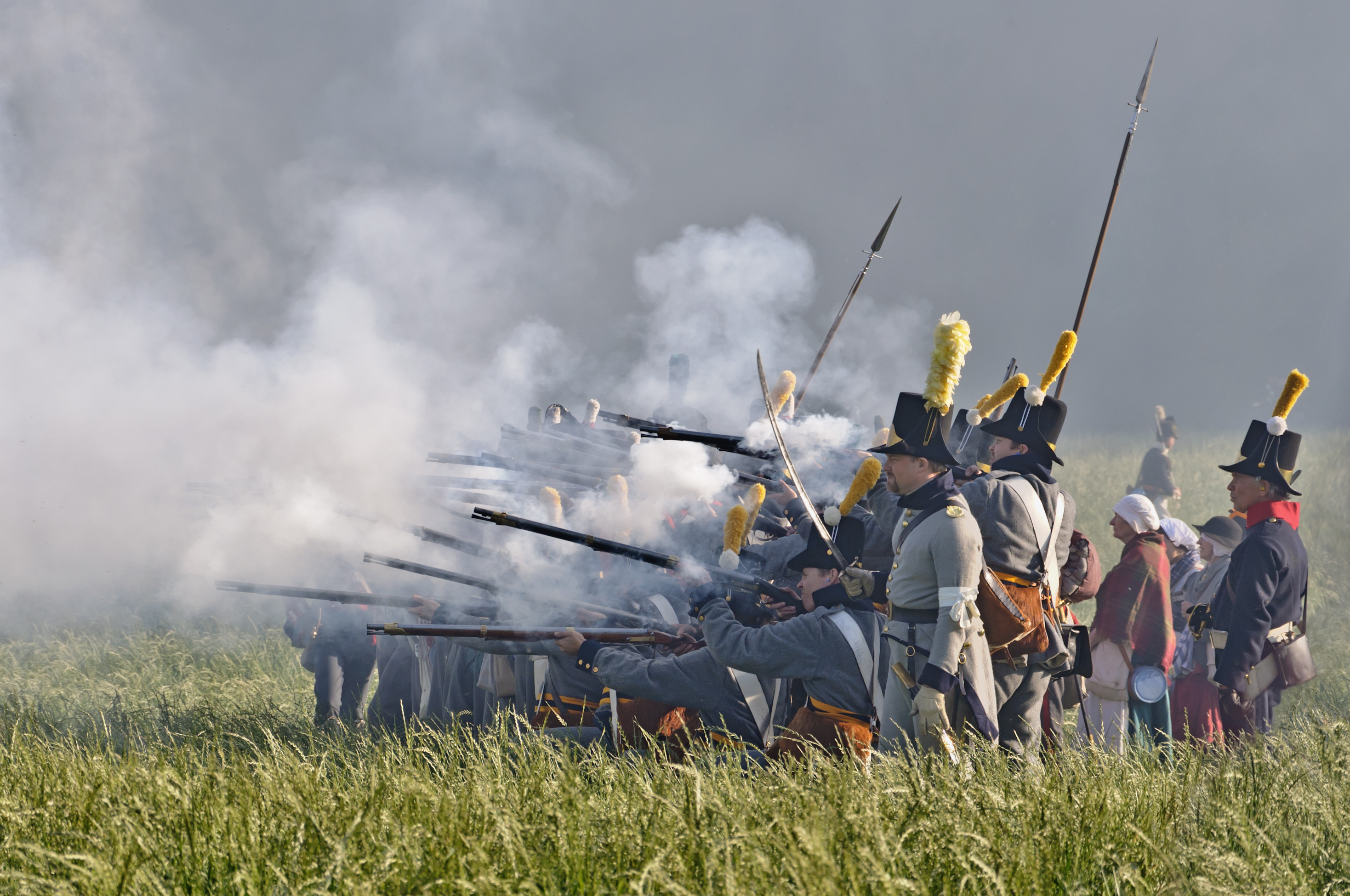 Soldiers in front of the wood of Hougoumont during the reenactment of the battle of Waterloo (1815), June 2011, Waterloo, Belgium.